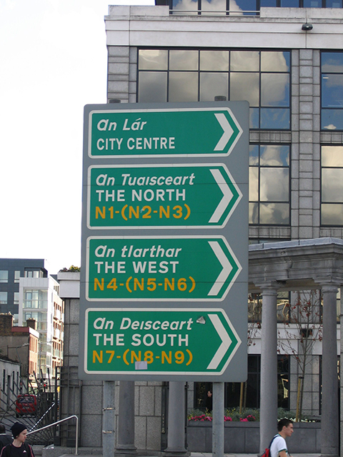 Dublin: all roads lead to... A good case for adopting the French "Toutes directions"? This sign stands beside the Ulster Bank HQ on George's Quay.